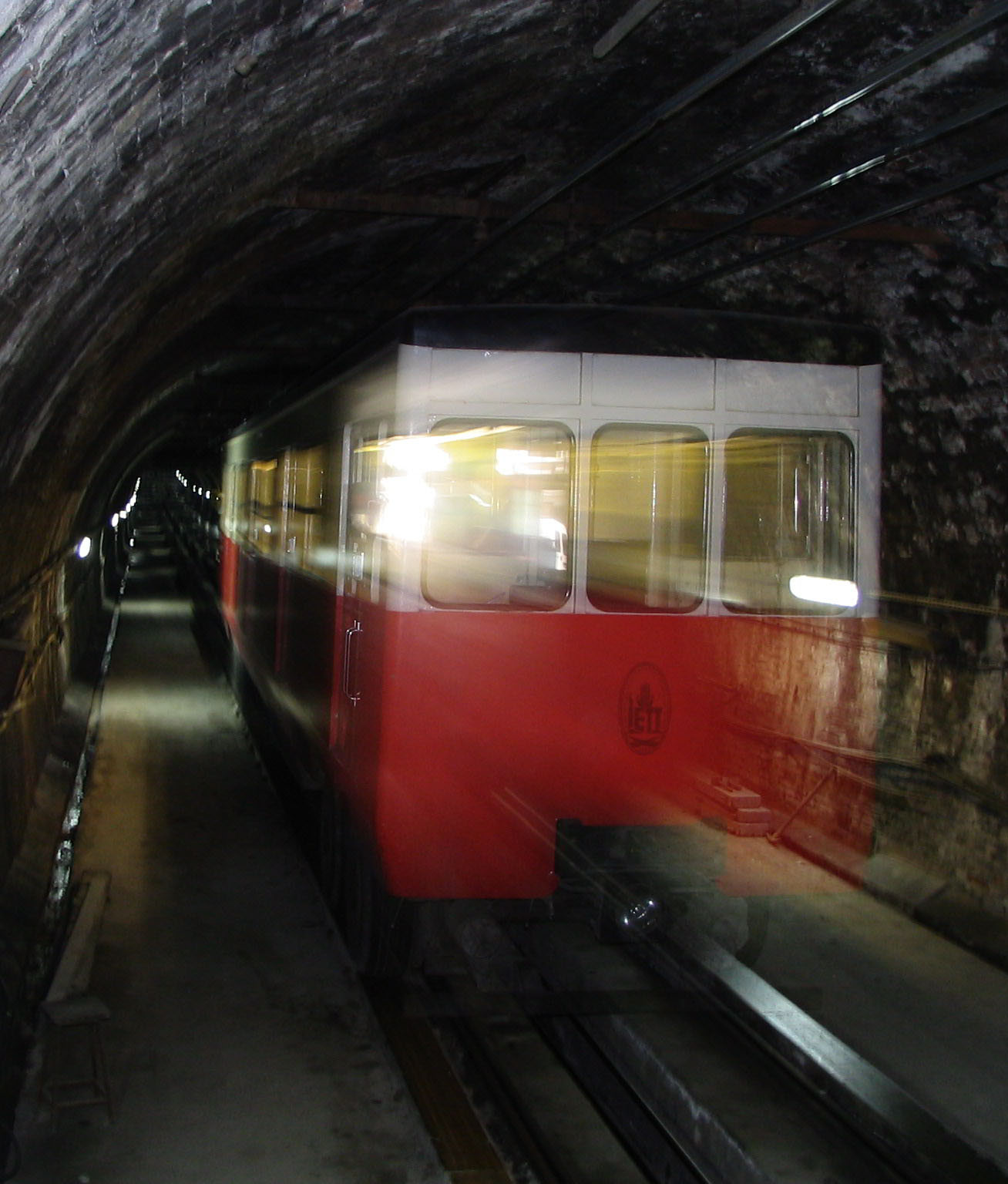 The Tünel in Istanbul, Turkey. May 2006. Photo by Winstonza talk